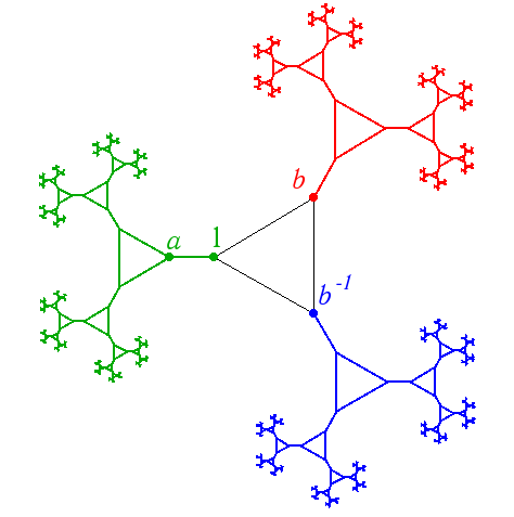 Cayley graph of free product Z 2 ∗ Z 3 {\displaystyle Z_{2}*Z_{3